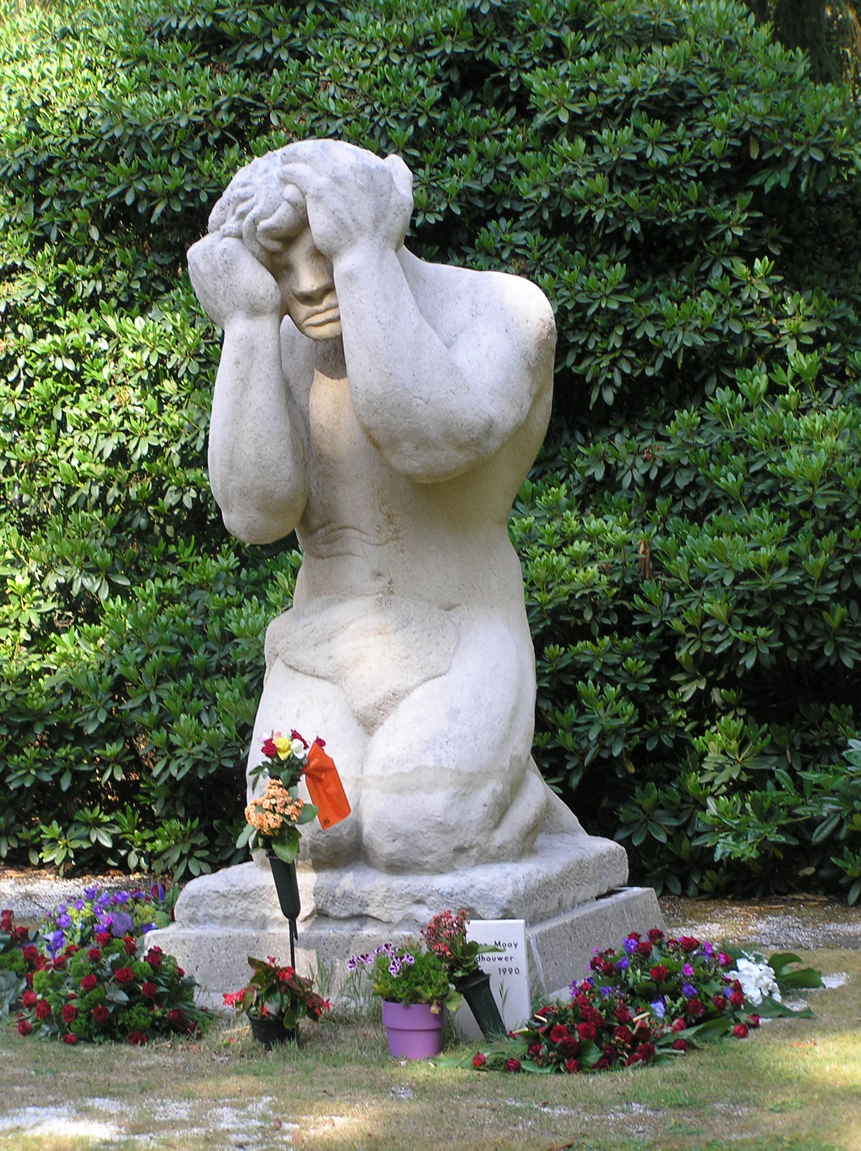 Sculpture "Wenende Man" by Maarten Mooy on the Rusthof in Leusden, The Netherlands